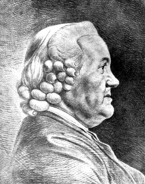 Gabriel Podoski